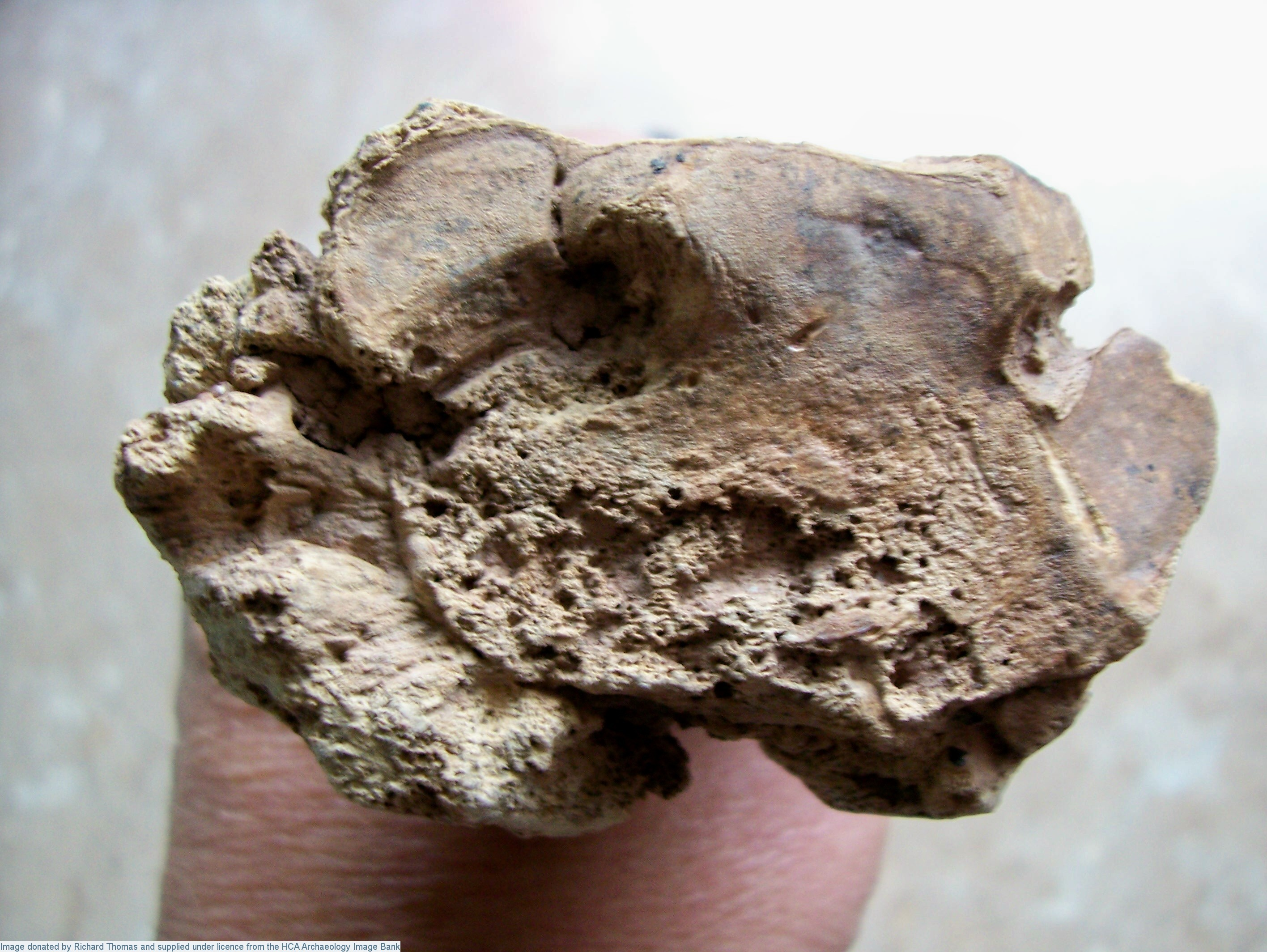 Ankylosed 2nd and 3rd horse metacarpals (Stage 2) with a massive exostosis on the proximal anterior and medial surfaces together with pitting of the articular surface typical of infective arthritis. Description: Horse 2nd and 3rd metacarpals from the phase 1b pit (12th - 13th centuries) of the Lower Ford Street site, Coventry. This feature contained a large deposit of cattle and horse bones amounting to 27Kg in weight. The metacarpals are fused to Stage 2 and display a massive exostosis on the proximal anterior and medial surfaces together with pitting of the articular surface. This is considered to be typical of infective arthritis. Creator: Richard Thomas Geographic coverage: iid:2489006/SP.1; Lower Ford Street; Coventry, England Time period: Post Medieval Date of creation: 2006 Type: Image Format: JPEG Subject: Archaeology; Archaeology; Image; Identifier: 2165 Is part of: Language: en Rights: Richard Thomas Publisher: Archaeology Data Service; Source: Archaeology Data Service Data provider: Archaeology Data Service Provider: CARARE Providing country: United Kingdom